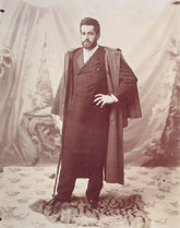 Mariano Fortuny y Madrazo (1871-1949), Spanish painter, portrait in young age